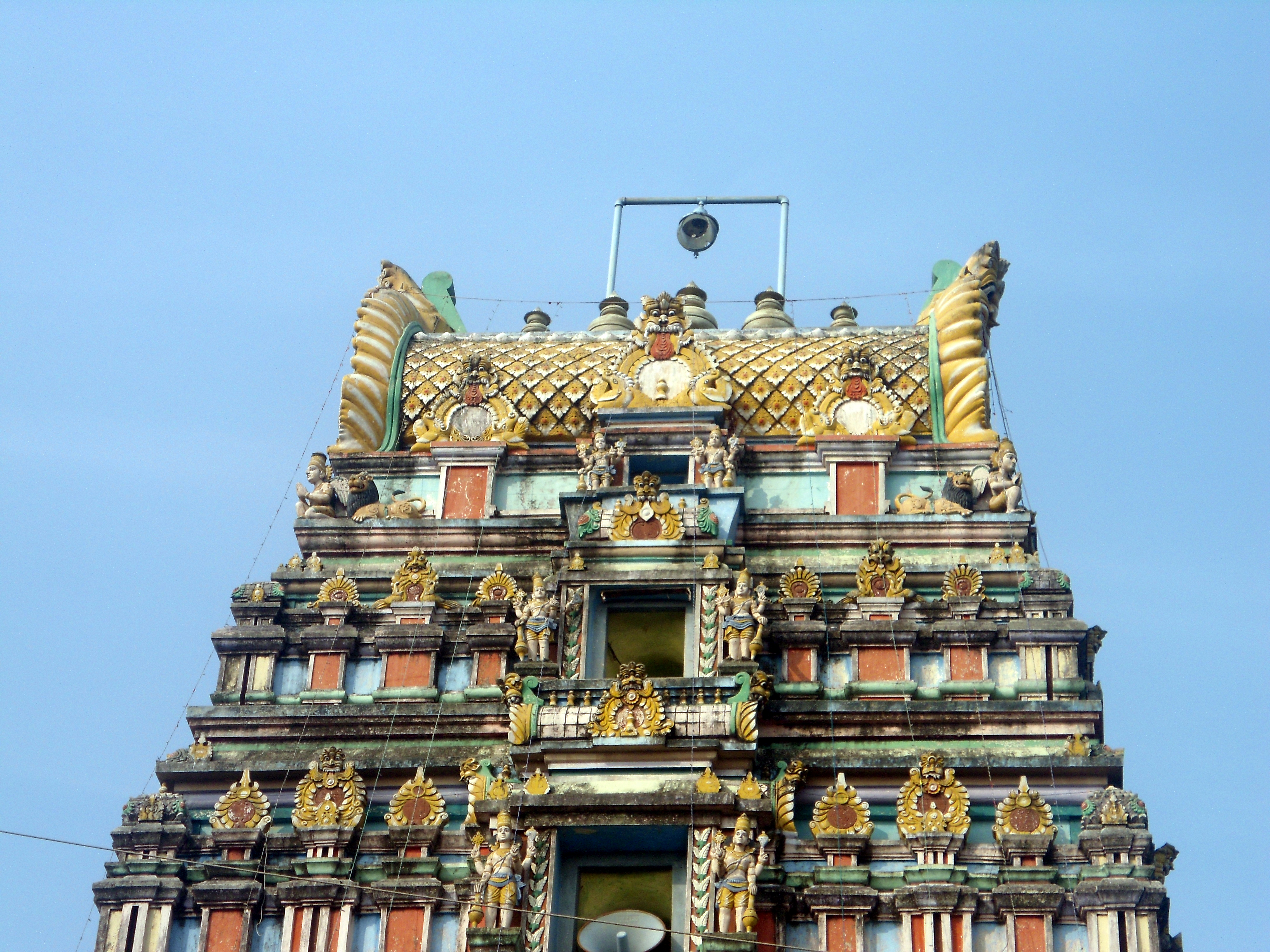 Near view of Gopuram, Ryali temple, East Godavari district, Andhra Pradesh